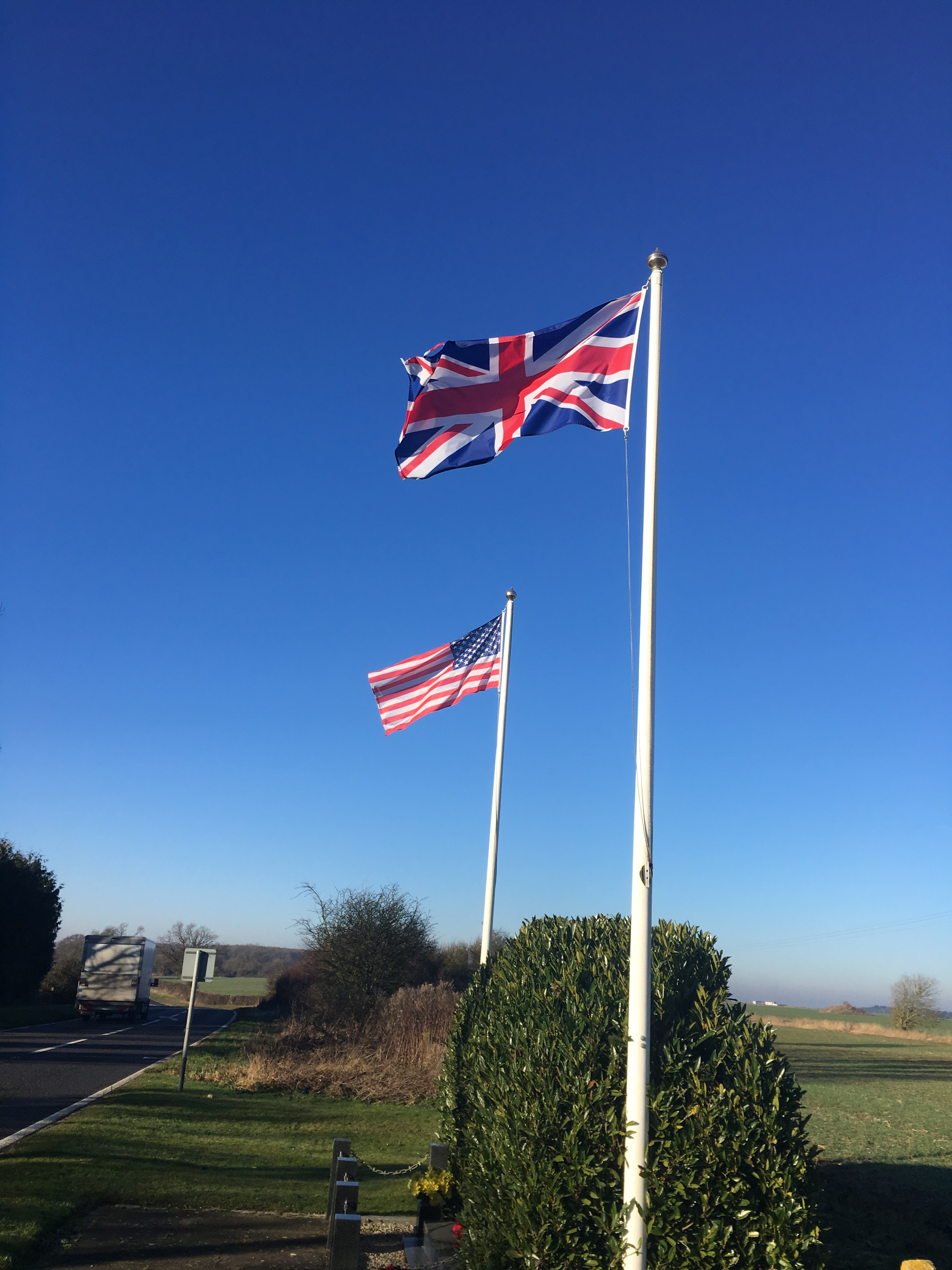 Union Flag and Flag of the United States at a memorial for 401st Bombardment Group H in Upper Benefield, England.